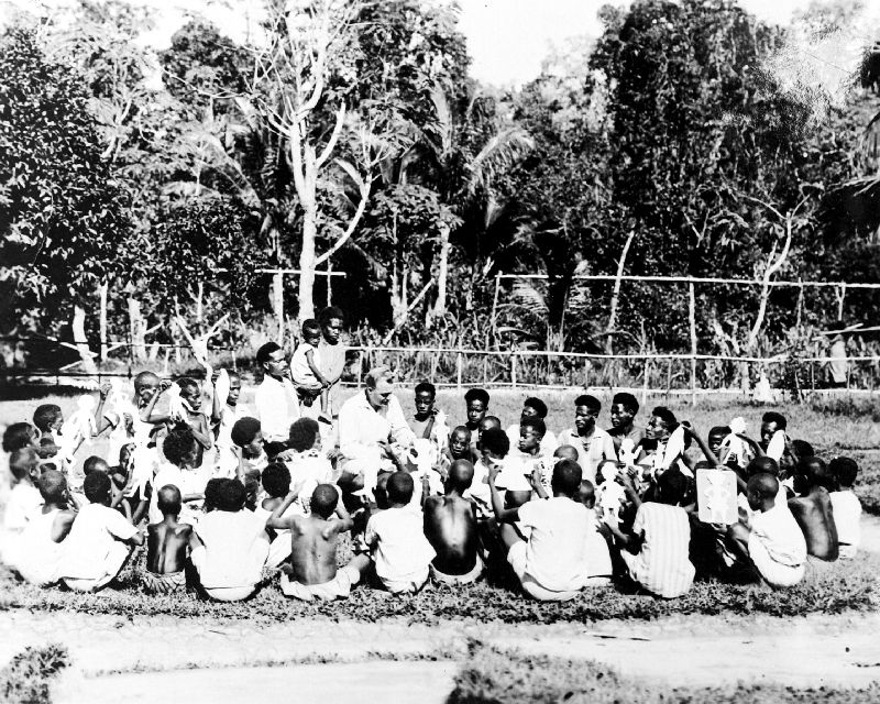 Subject: dolls, paperwork